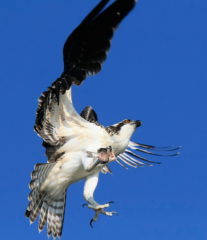 juvenile osprey learning to fly